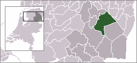 Location map of Dutch municipality in Drenthe